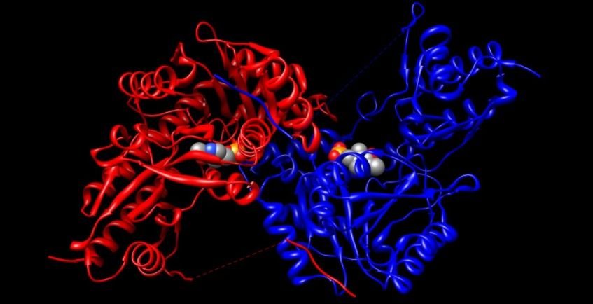 Blue and Red colored to show dimer characteristic of tyrosine aminotransferase.